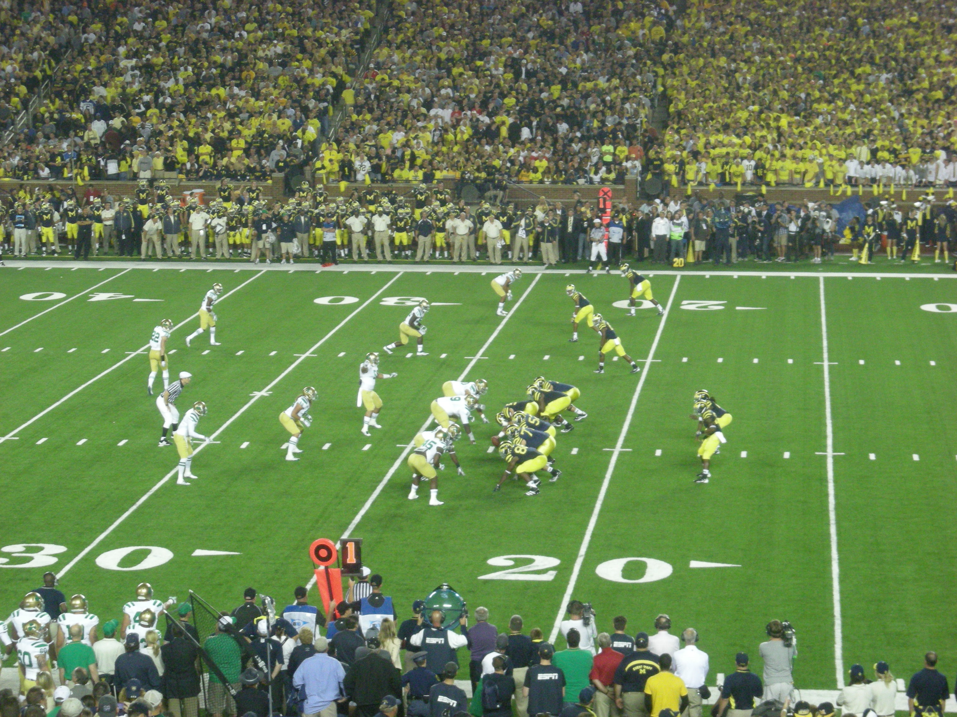 Michigan on offense during the Notre Dame Fighting Irish vs. Michigan Wolverines football game at Michigan Stadium in Ann Arbor, Michigan (United States). Michigan won 35–31.